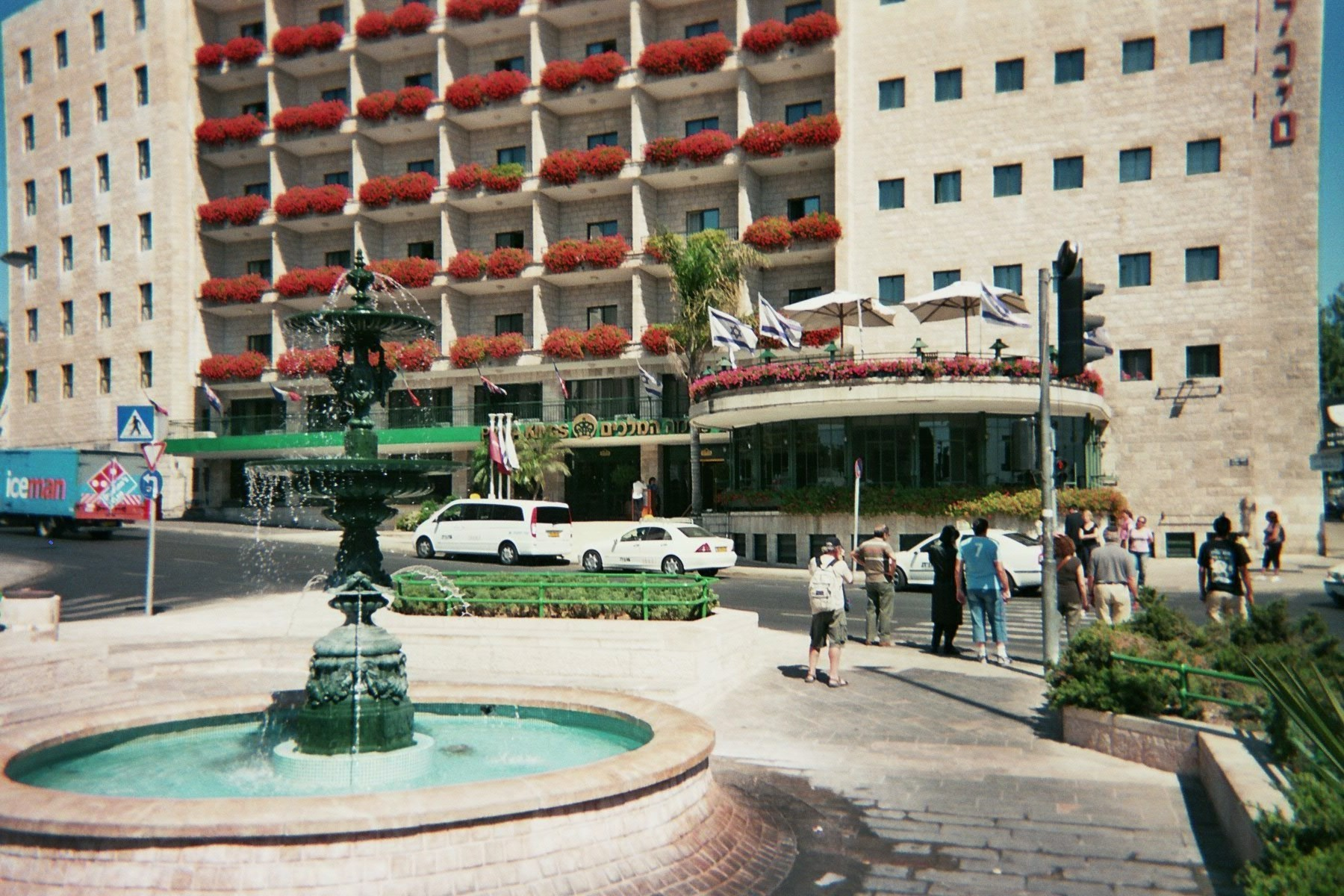 Wallace fountain (in fact, not a Wallace model), the French Square, Jérusalem. Ramban street and Kings Hotel which is famous for its Geranium flower planters